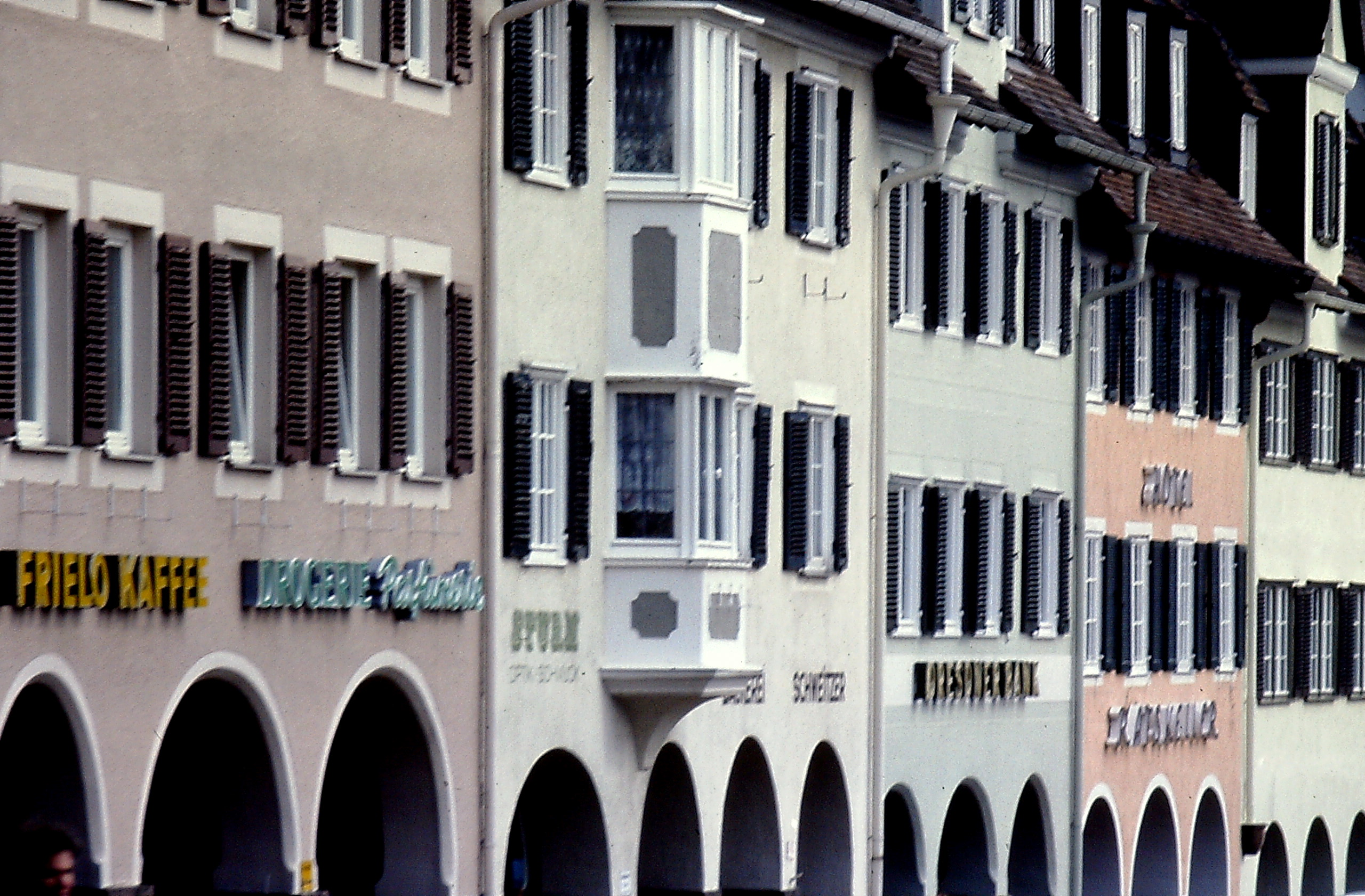 Freudenstadt